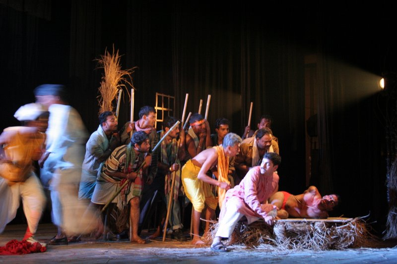 Drama Tohar Gaon Bhi Ek Din.